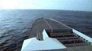 French frigate Forbin. Screenshot from DNU Flash flash video of the US Navy.